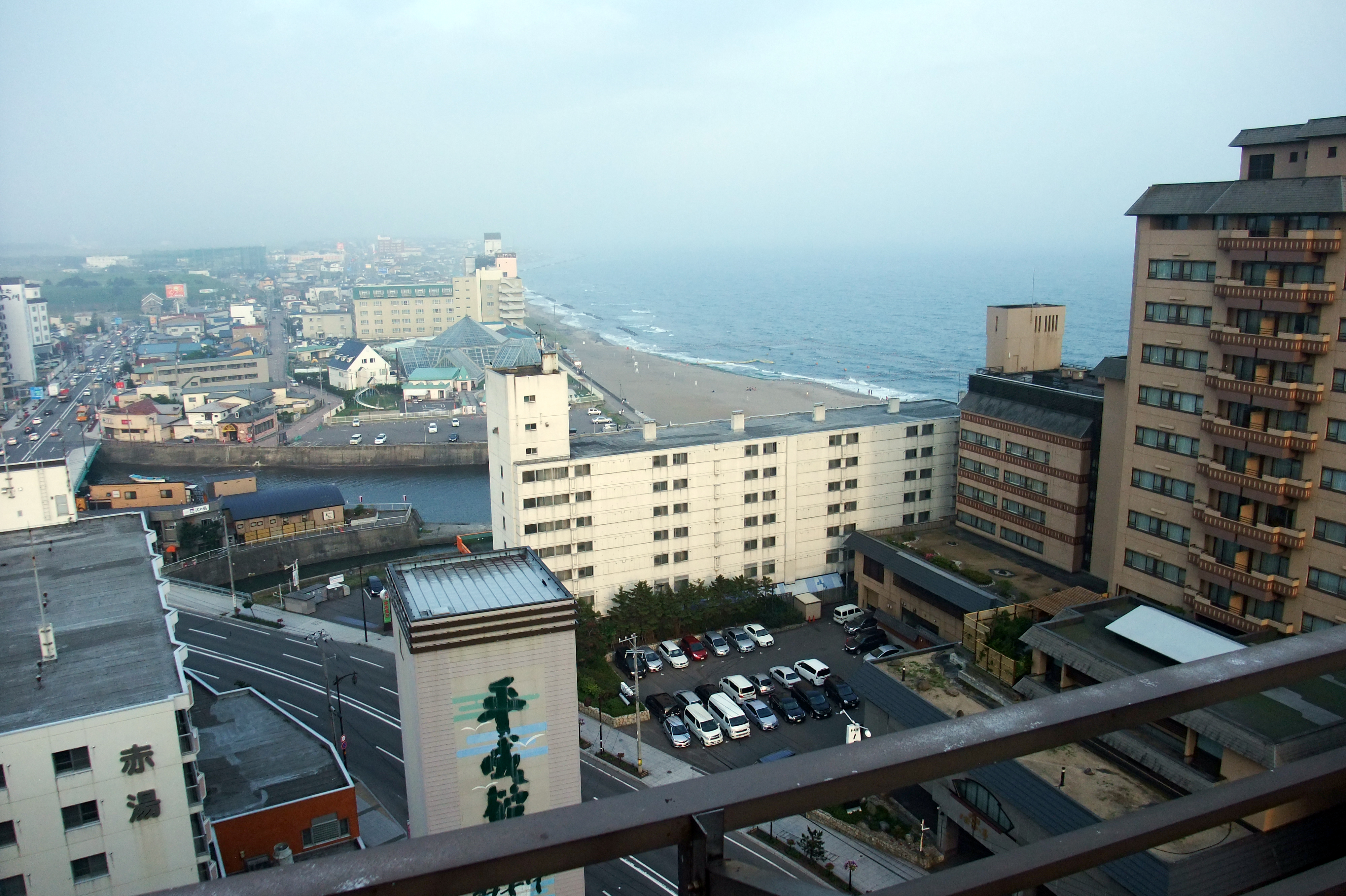 Yunokawa Onsen in Hakodate, Hokkaido prefecture, Japan